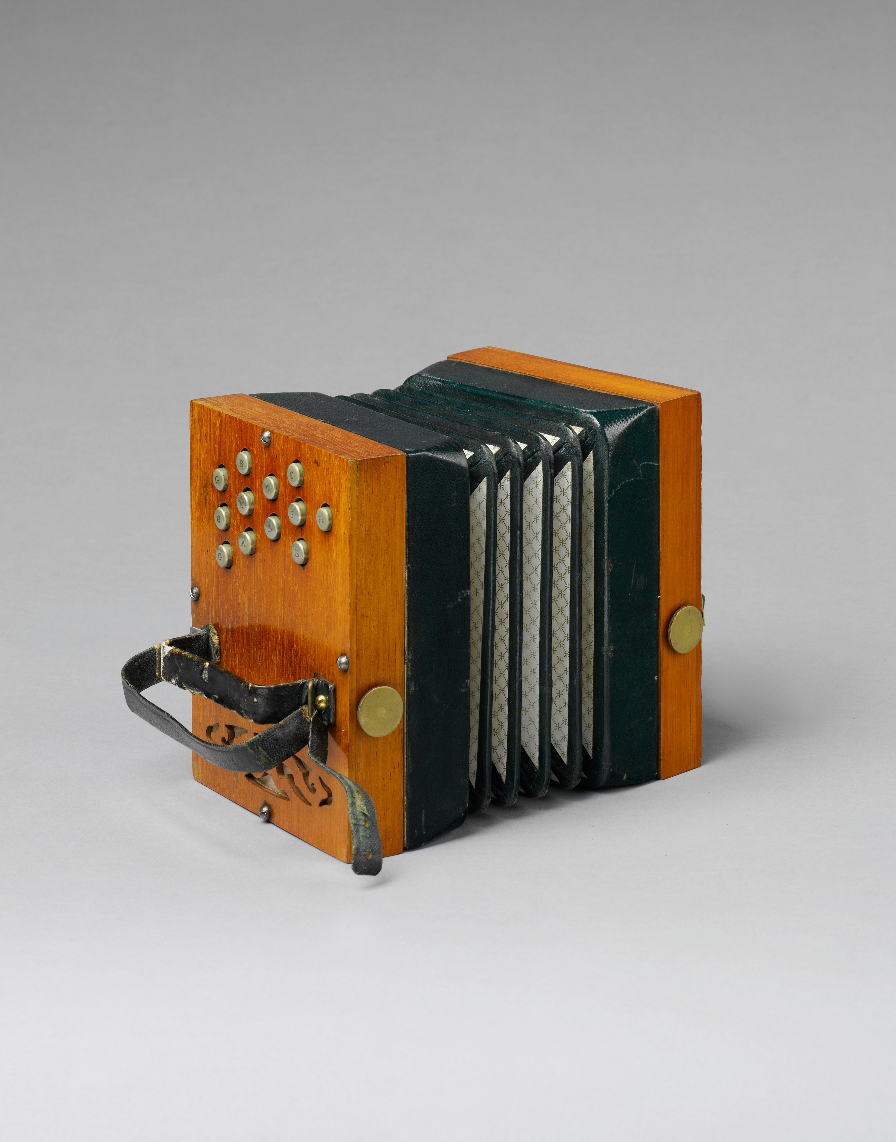 British; Concertina; Aerophone-Free Reed-concertina / accordion